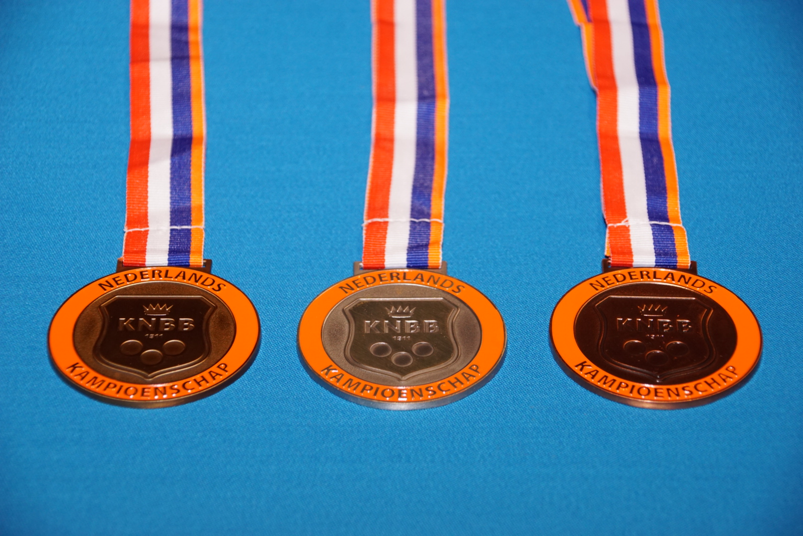 Medailles NK Biljartvijfkamp 2018